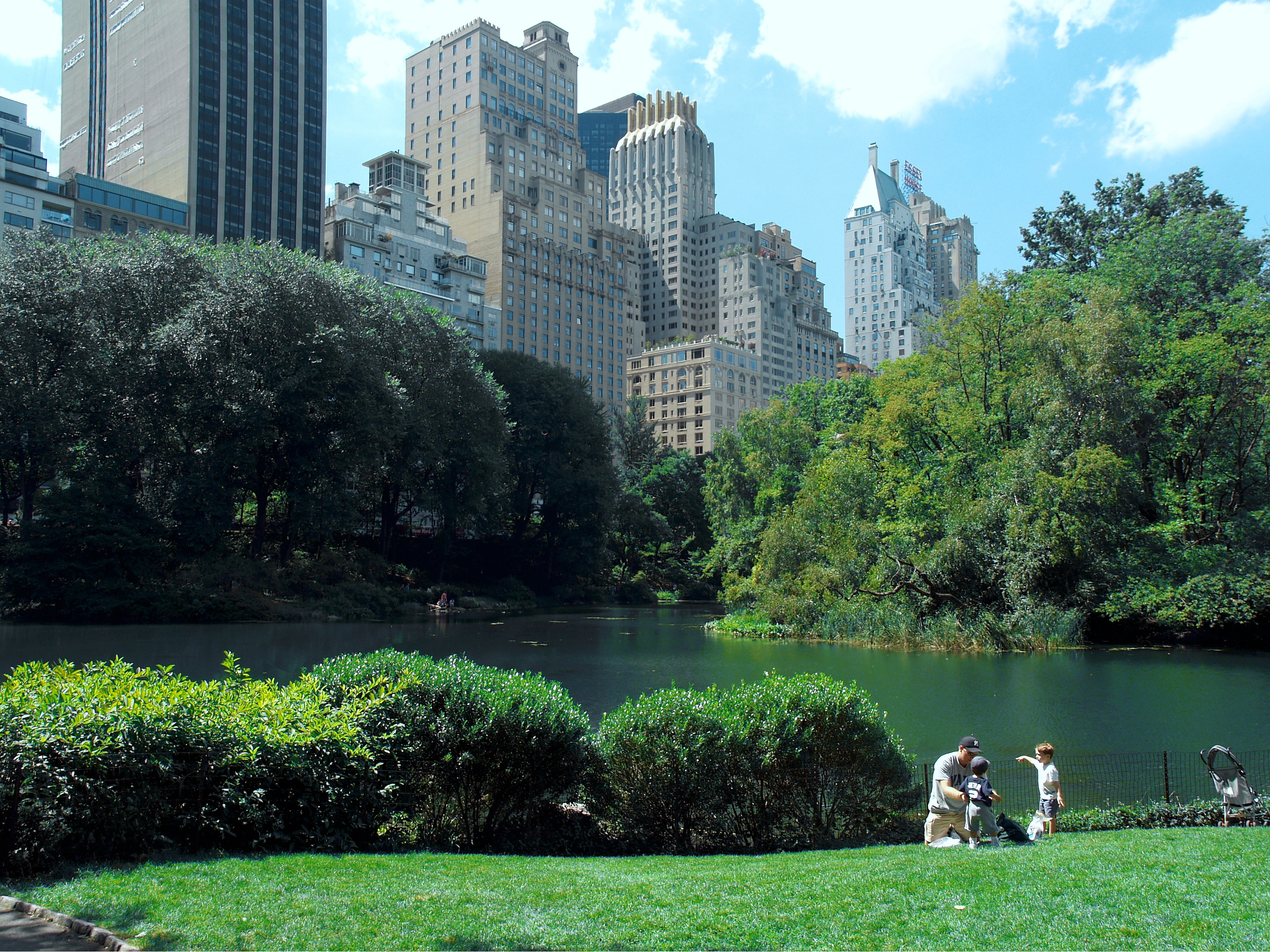 Lower Central Park at 1:00 p.m. Photographer's blog post about new photos of Central Park for Wikipedia.